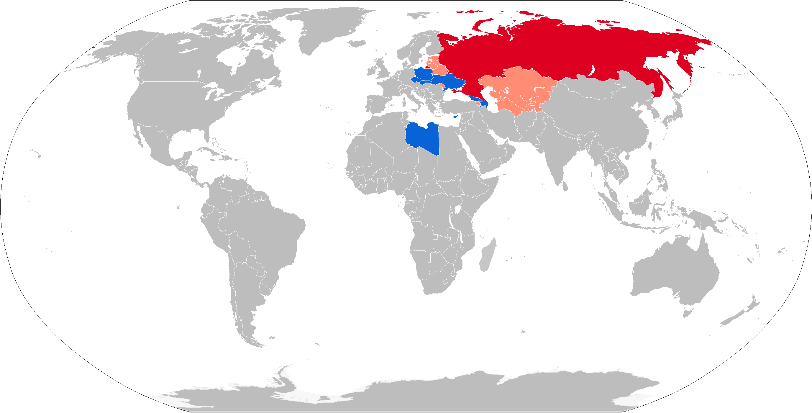 Map of SpGH DANA operators in blue with former operators in red